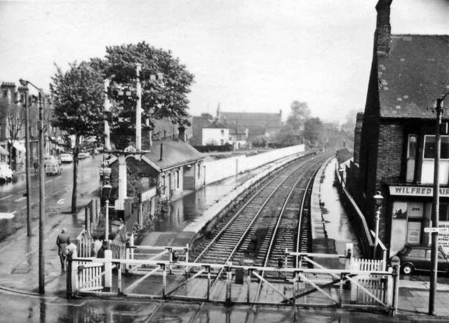 Botanic Gardens Railway Station. Hull, East Riding of Yorkshire, England in 1967.View NE, towards Stepney, Hornsea and Withernsea; ex-NER Hull (Paragon) - Hornsea and Withernsea lines. This station closed to passengers on 19/10/64 when the services to Hornsea and to Withernsea ceased, but remained open for goods until 6/9/65 and the line (to Victoria Dock) survived until 1968.